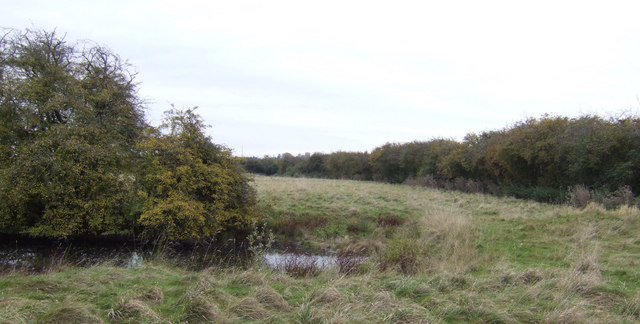 Fenland pasture A field with a pond for stock to drink by the North Fen Drove. The tower of Haddenham church is just visible over the trees in the centre distance. These trees are planted alongside a dismantled railway track.